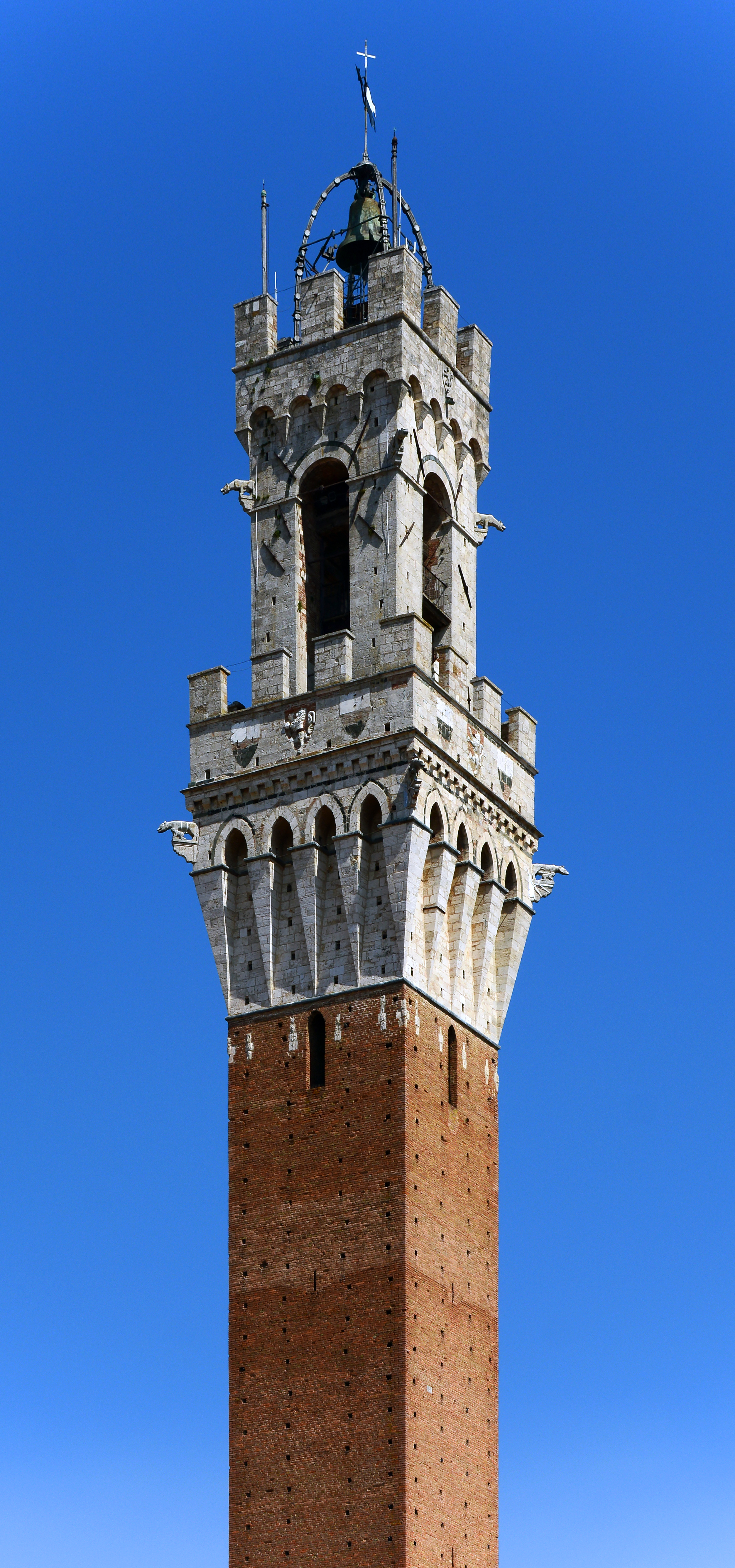 Torre del Mangia (Siena) foreground